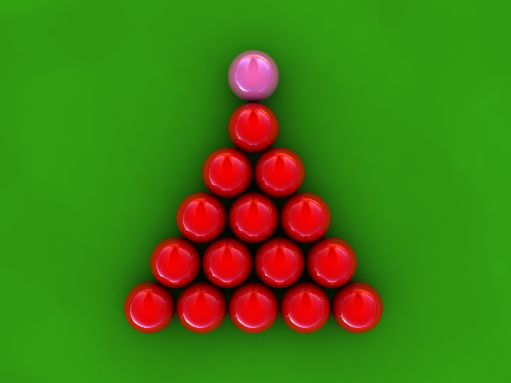 3D render of a triangle of Snooker reds with pink ball. HRDI light probe (a light map which creates some reflections) by Ben Cloward, "Feel free to use these textures for any project, personal or professional. They are my gift to the 3D community.".